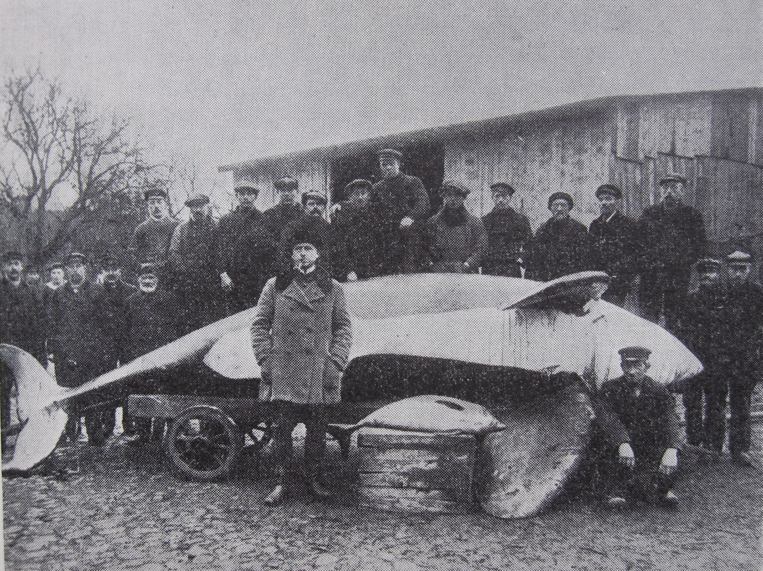 Killer whale and harbour porpoise caught by Danish porpoise hunters on 10th of January 1919 in Little Belt, Denmark.